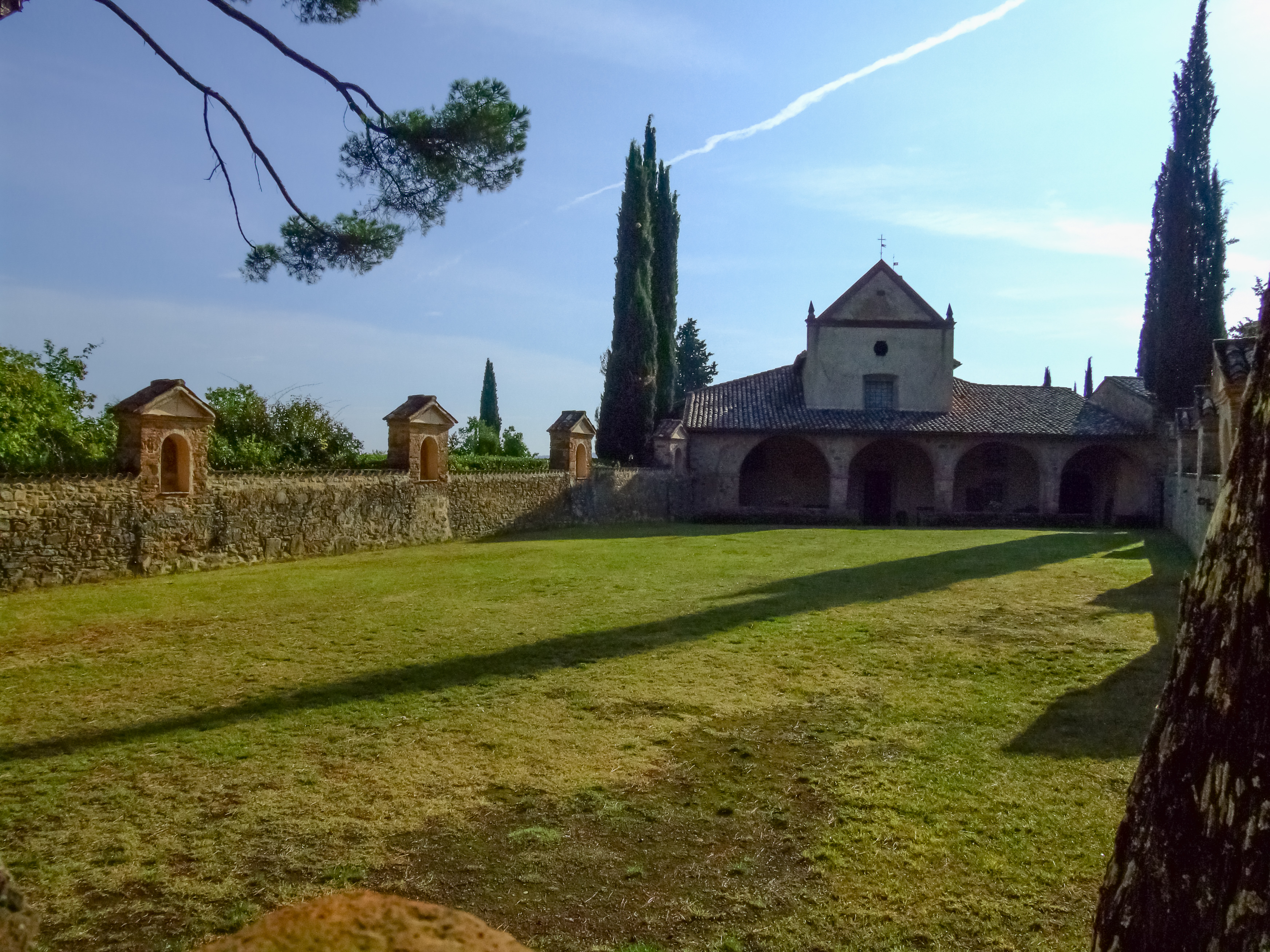 Ancient Franciscan convent of "La Scarzuola" - Montegabbione, Terni - Mausoleum of the Counts of Marsciano